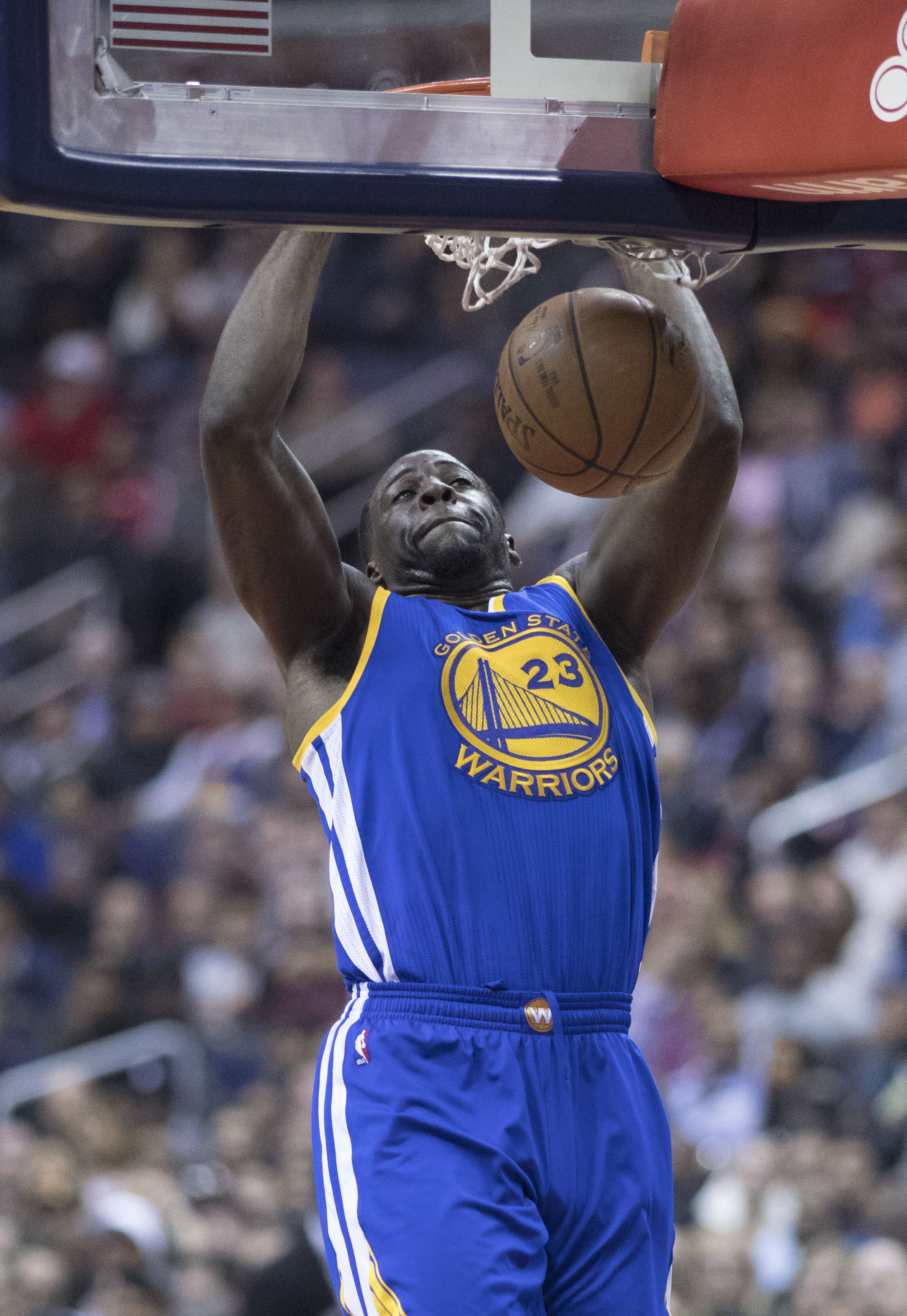 Draymond Green of the Golden State Warriors dunks in a game against the Washington Wizards at Verizon Center on February 28, 2017 in Washington, DC.